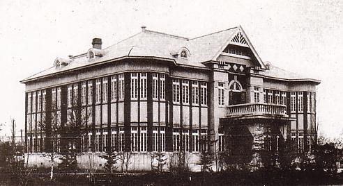 Rudaka Town Office